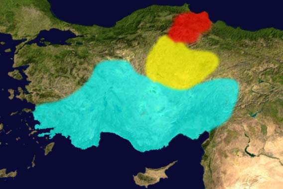 Anatolian IE Languages in 2nd millenium BC: red = Palaic, yellow = Hittite, blue = Luwian. Own elaboration from File:Anatolia composite NASA.png. Source: Francisco Villar, Lo Indoeuropeos y los origenes de Europa, Italian version, p. 350